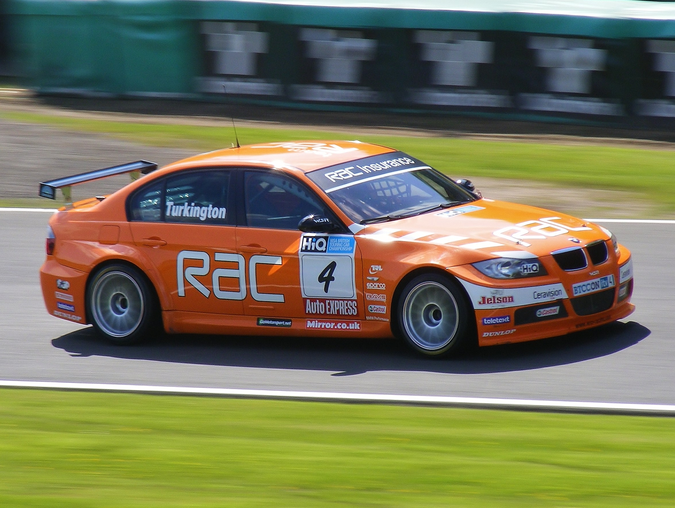 Colin Turkington exits knickerbrook corner during a qualifying session at Oulton Park.